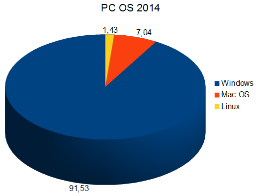 OS PC 3D pie charts in 2014